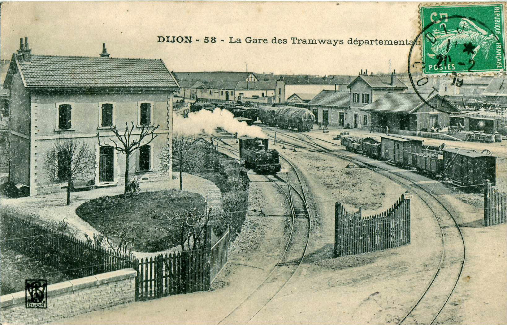 Carte postale éditée par WB à Dijon, n°58Dijon - La gare des Tramways départementaux